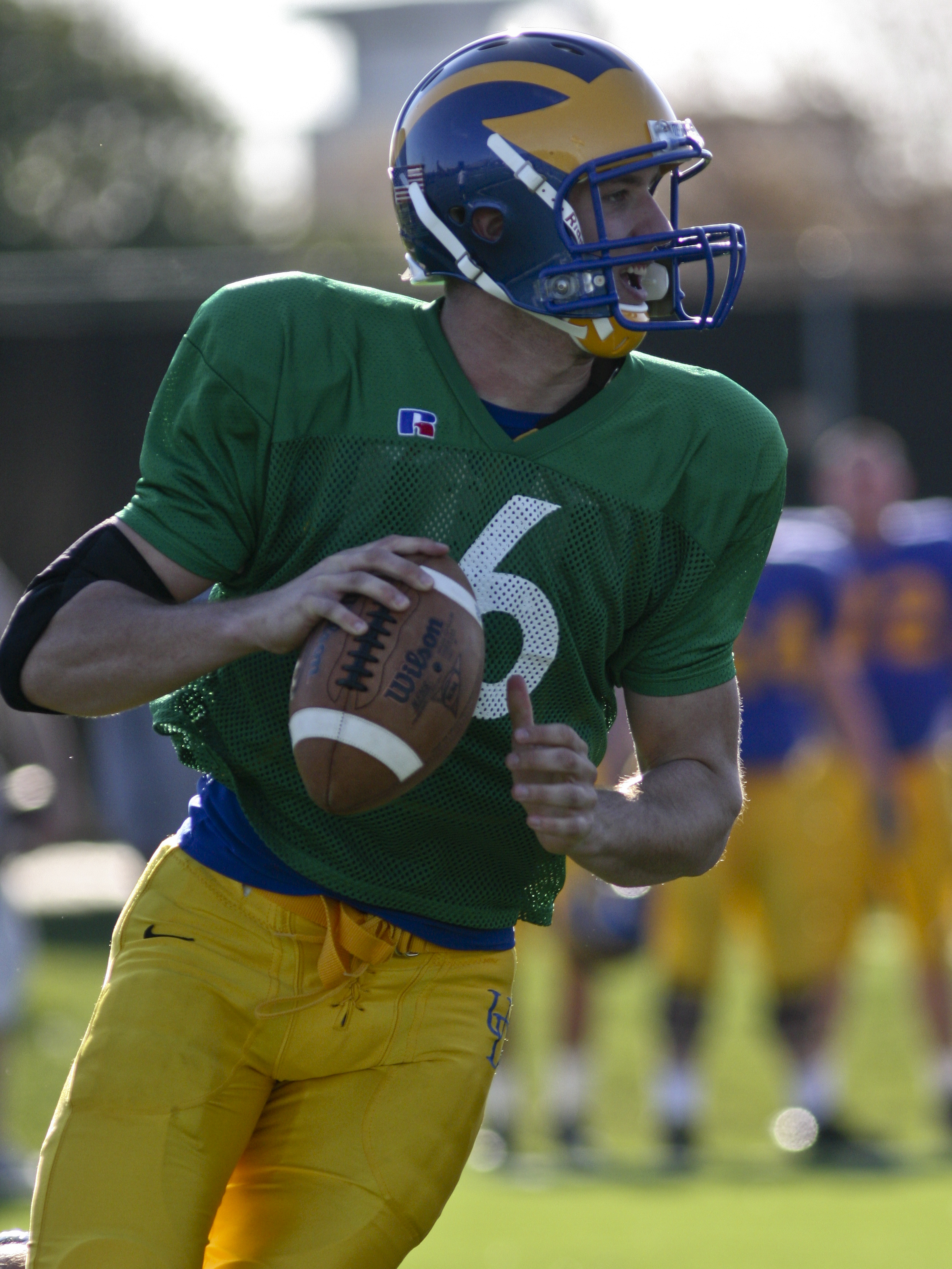 Pat Devlin during 2009 spring practice